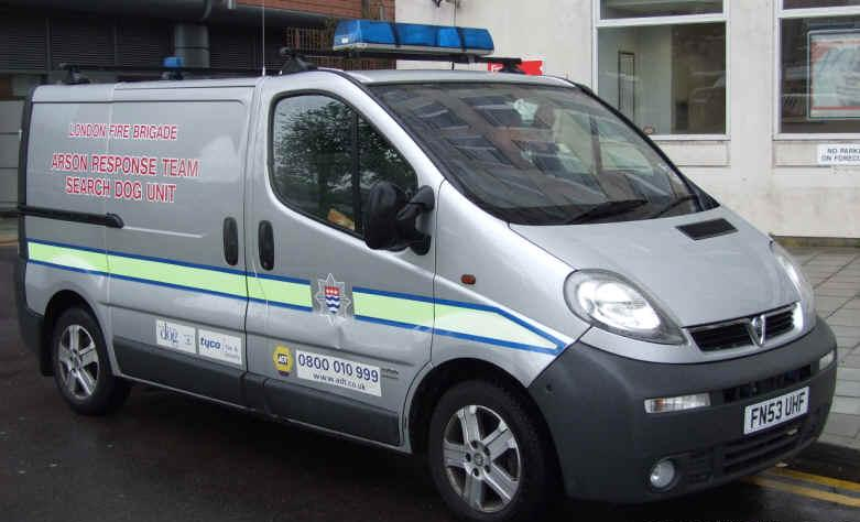 The London Fire Brigade's Arson Response Team's Search Dog unit, based at New Cross fire station.